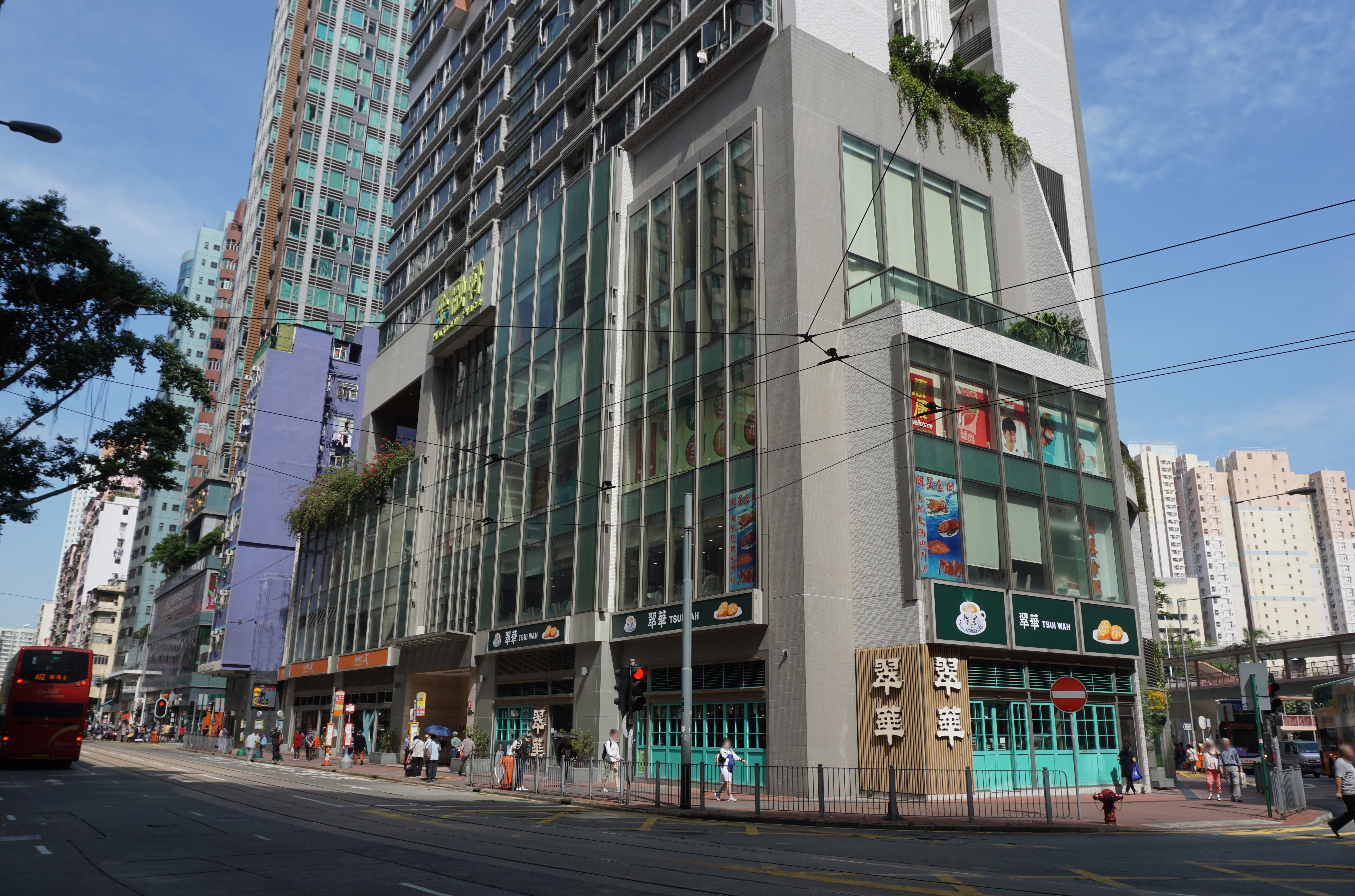 Harmony Place in Shau Kei Wan, Hong Kong.